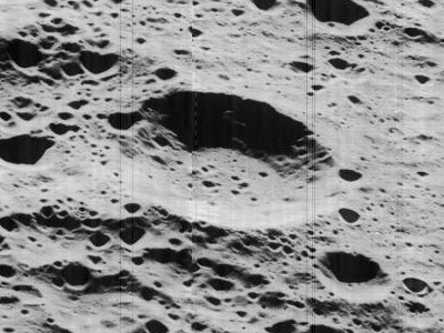 Oblique view of Chernyshev, on the far side of the moon, facing west.